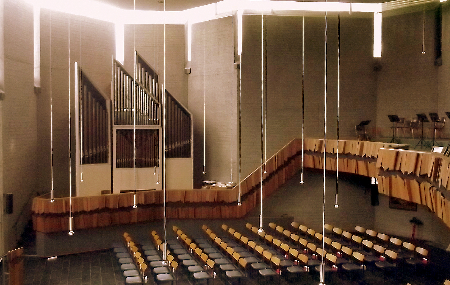 Interior of the protestant church in Dillingen, Saarland, Germany